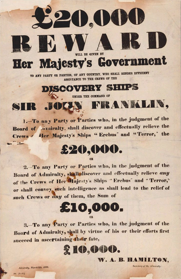 Poster offering a reward for help in finding Franklin's lost expedition.